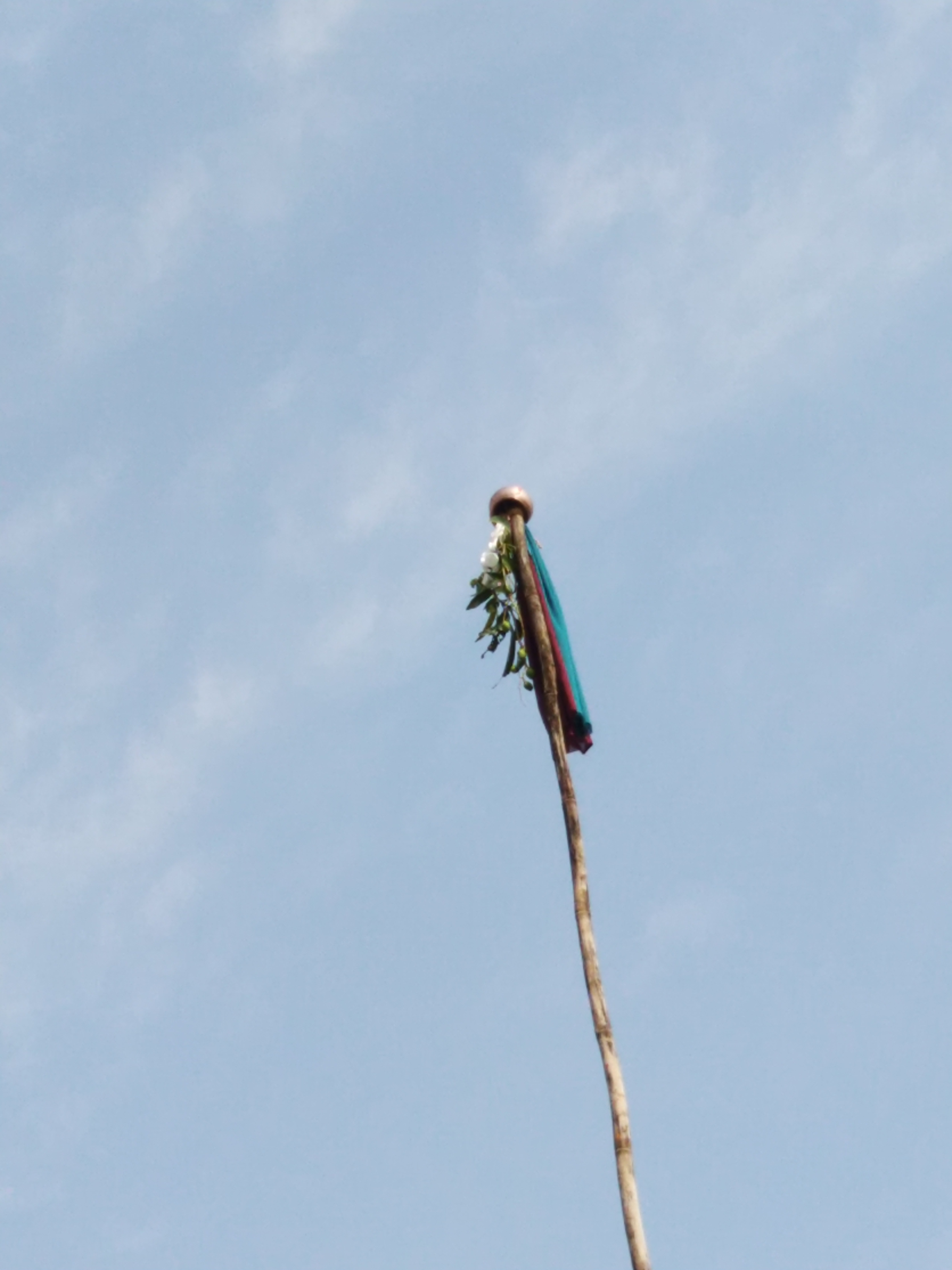 Traditional Gudhi in Jamthi Kh. village in Hingoli District Maharashtra in India on the occasion of Gudhi Padwa.